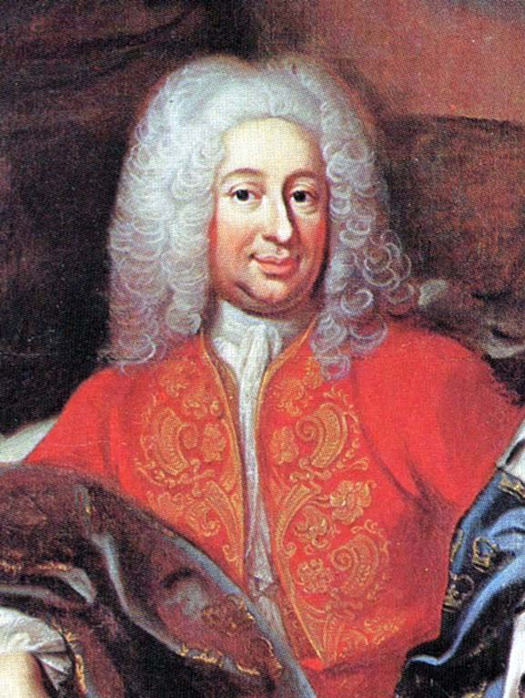 King Frederick of Sweden (1676-1751)